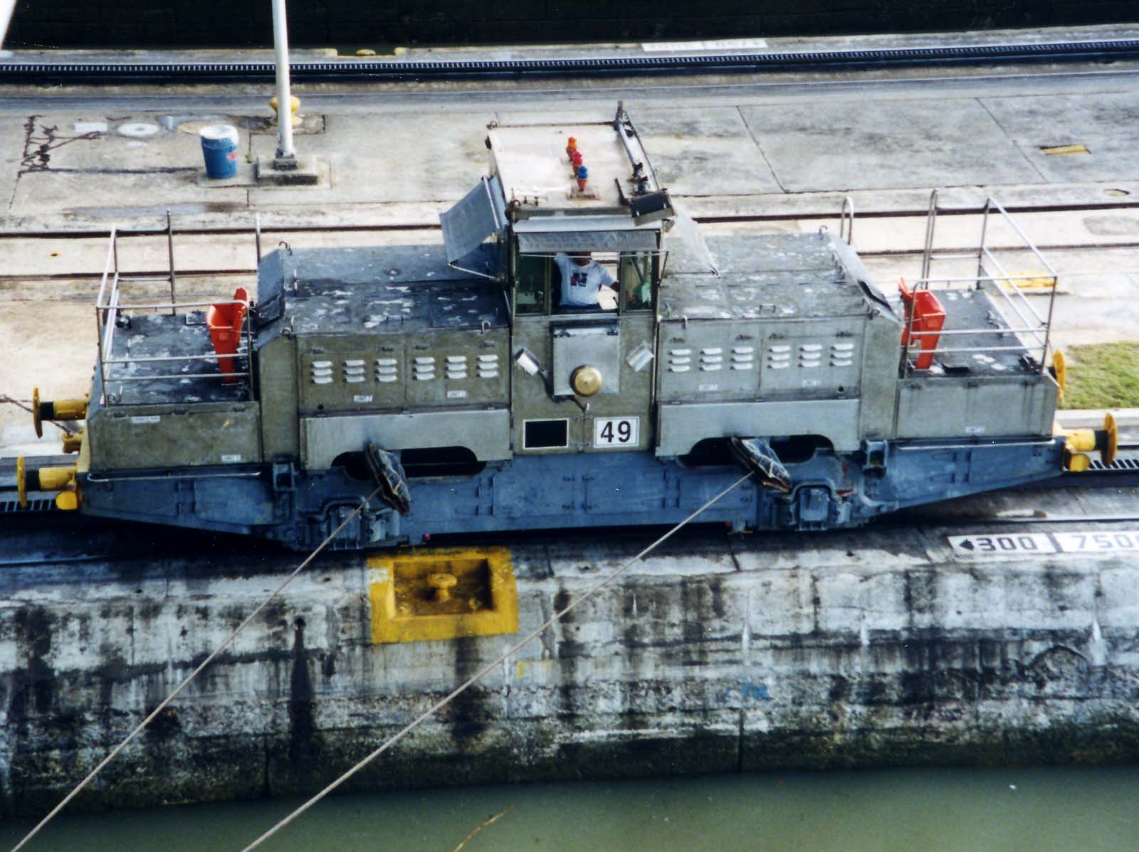 Panama Canal "mule". Mules are special locomotives used to move the ships through the locks, which they do via cables attached to the ship.